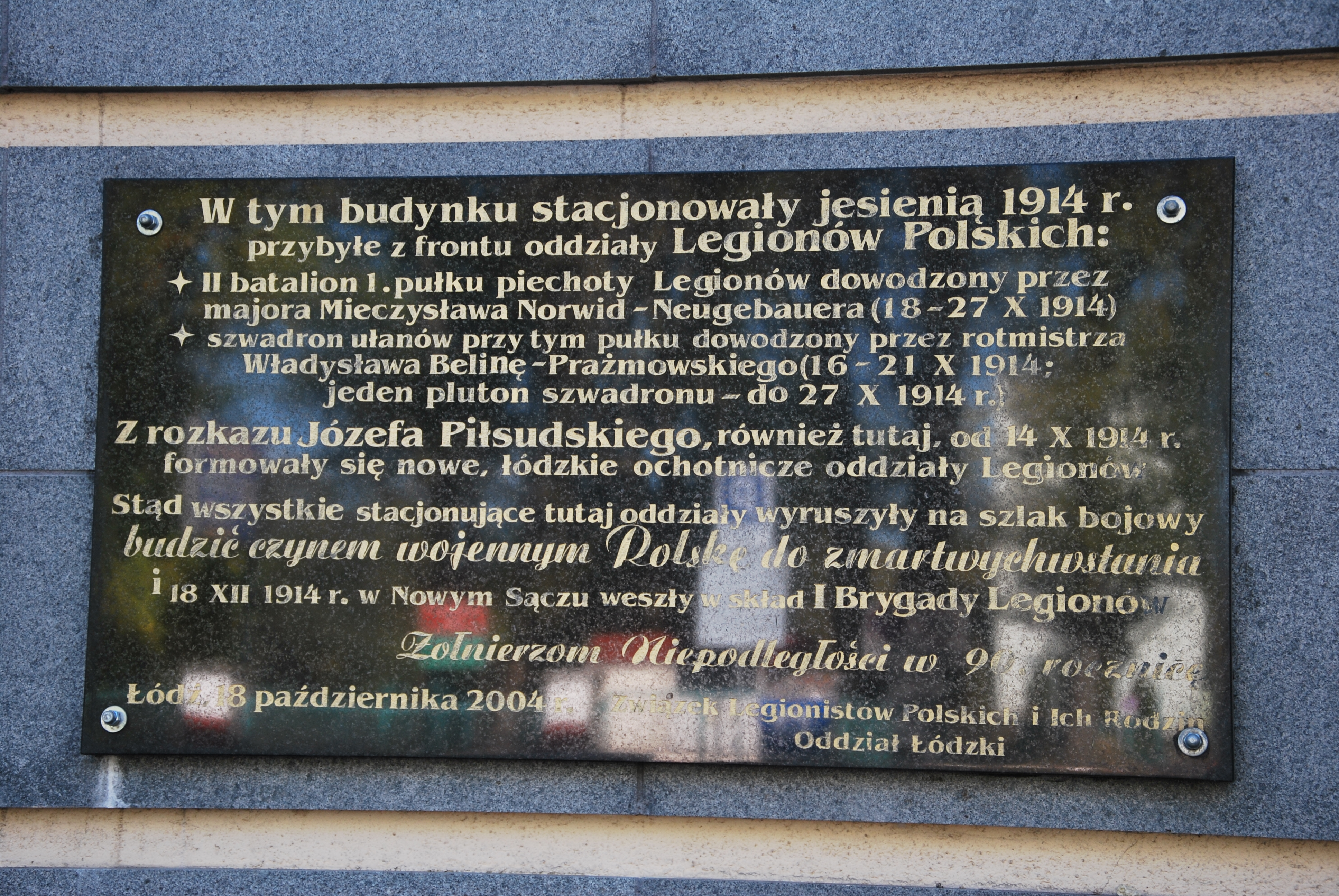 Plaque Pilsudski's Legions, Łódź 84 6-Sierpnia Street